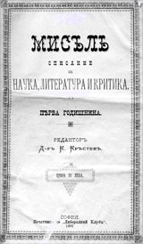 Titul Magazine Misul (1892-1907)